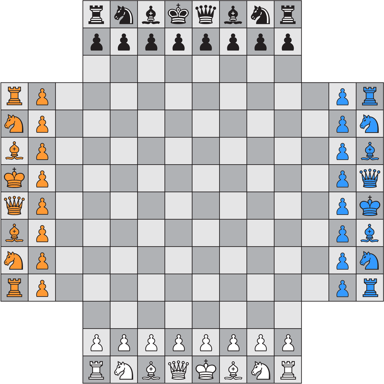 The four-handed chess board based on Chesapeake Four-Handed Chess start position.